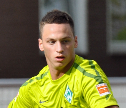 Bremen player Marko Arnautovic